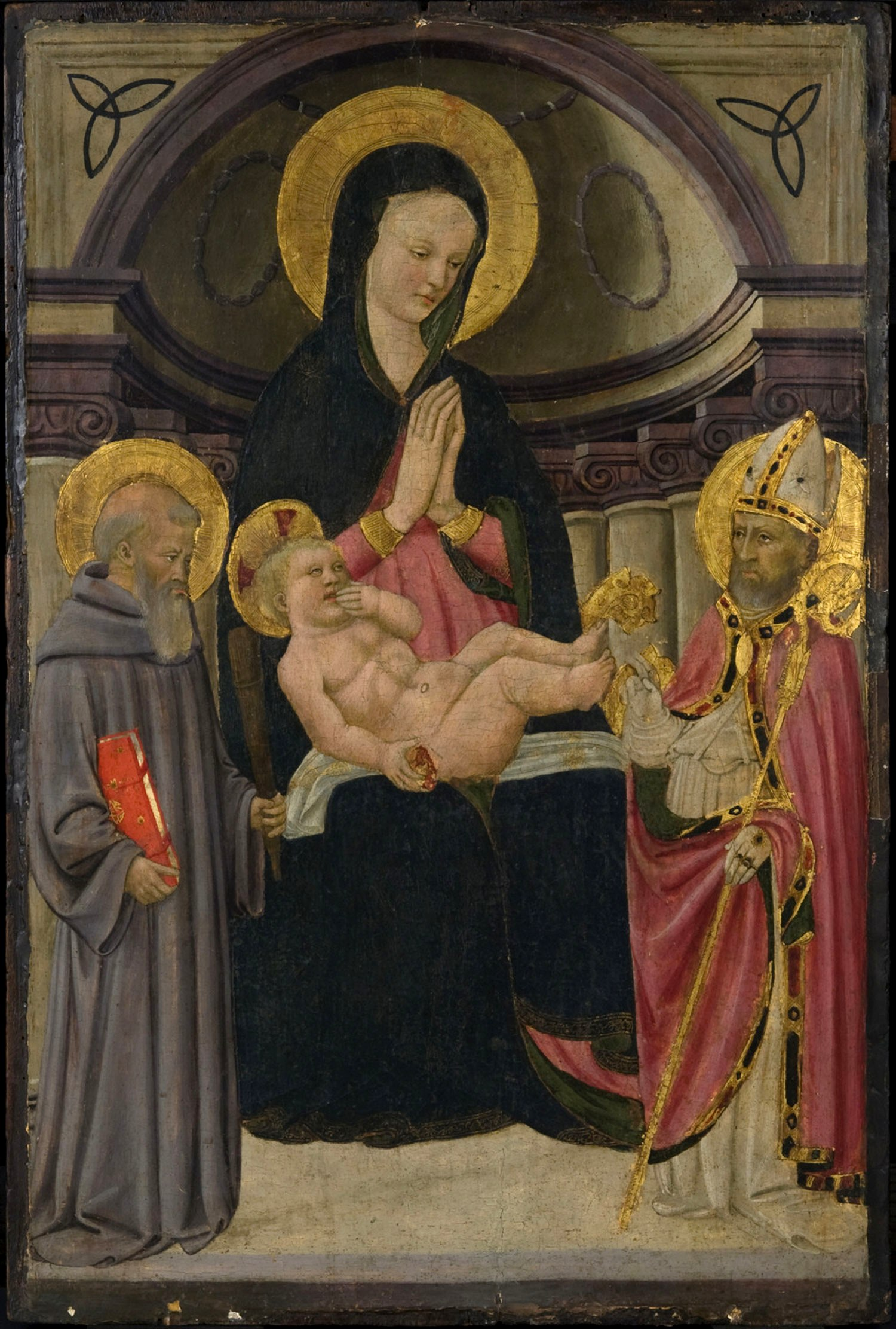 Workshop of Apollonio di Giovanni and Marco del Buono. Virgin and Child Enthroned with St. Benedict and Bishop Saint, ca. 1460, Philadelphia Museum of Art